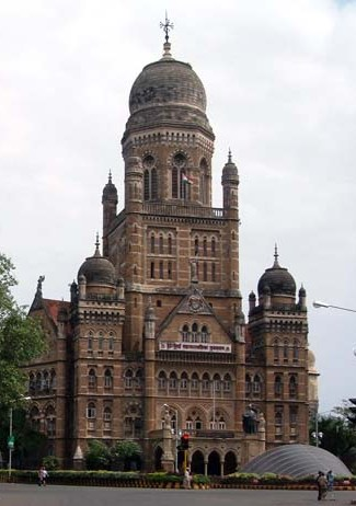 Mumbai Bmc Uploaded to wiki by user:nikkul